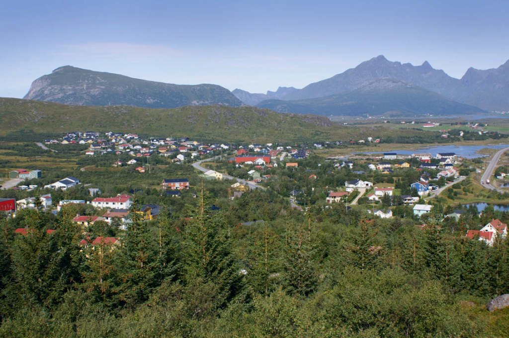 Photography by Haakon S. Rist